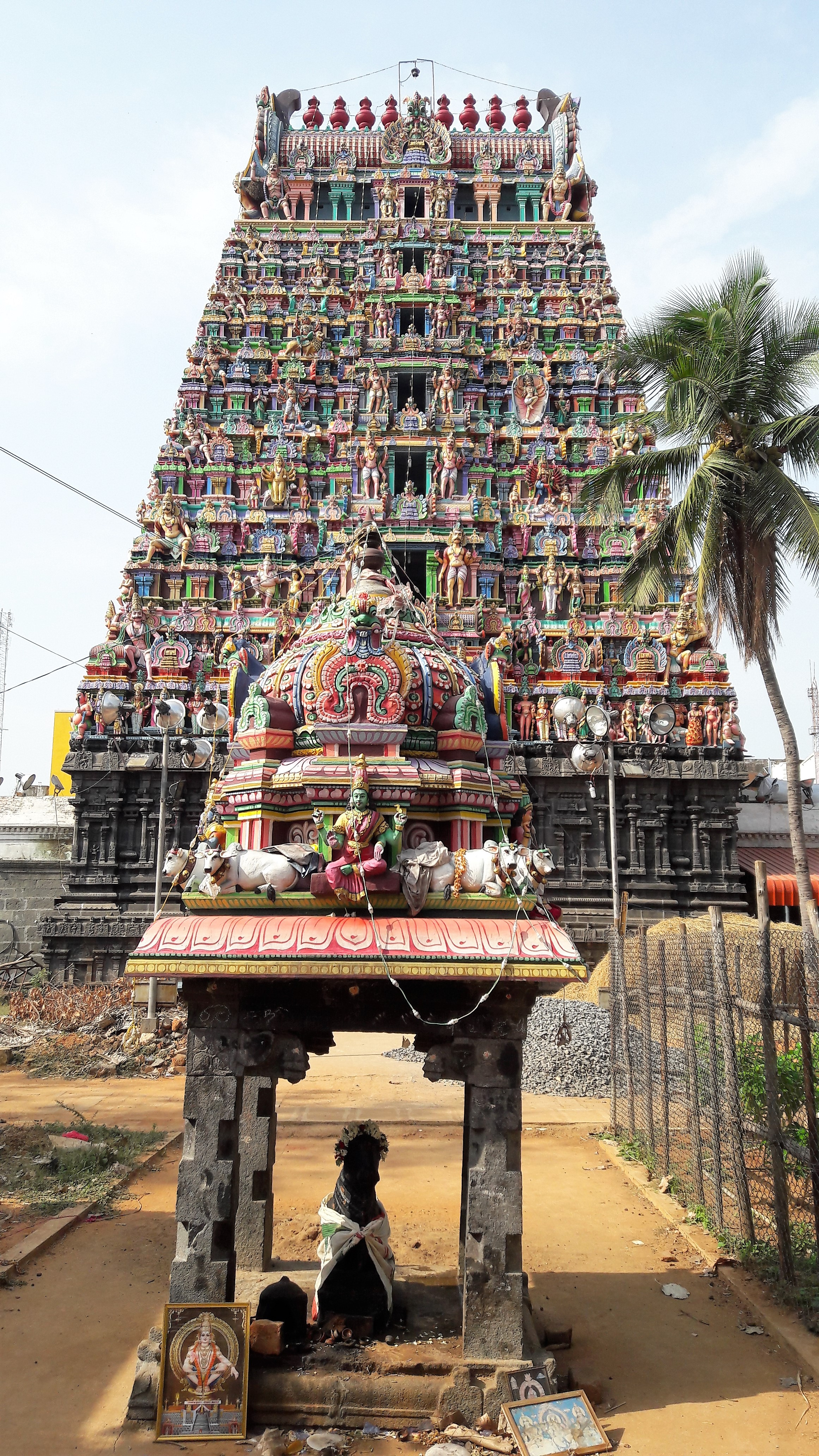 Kameeswarar temple, Villayanur